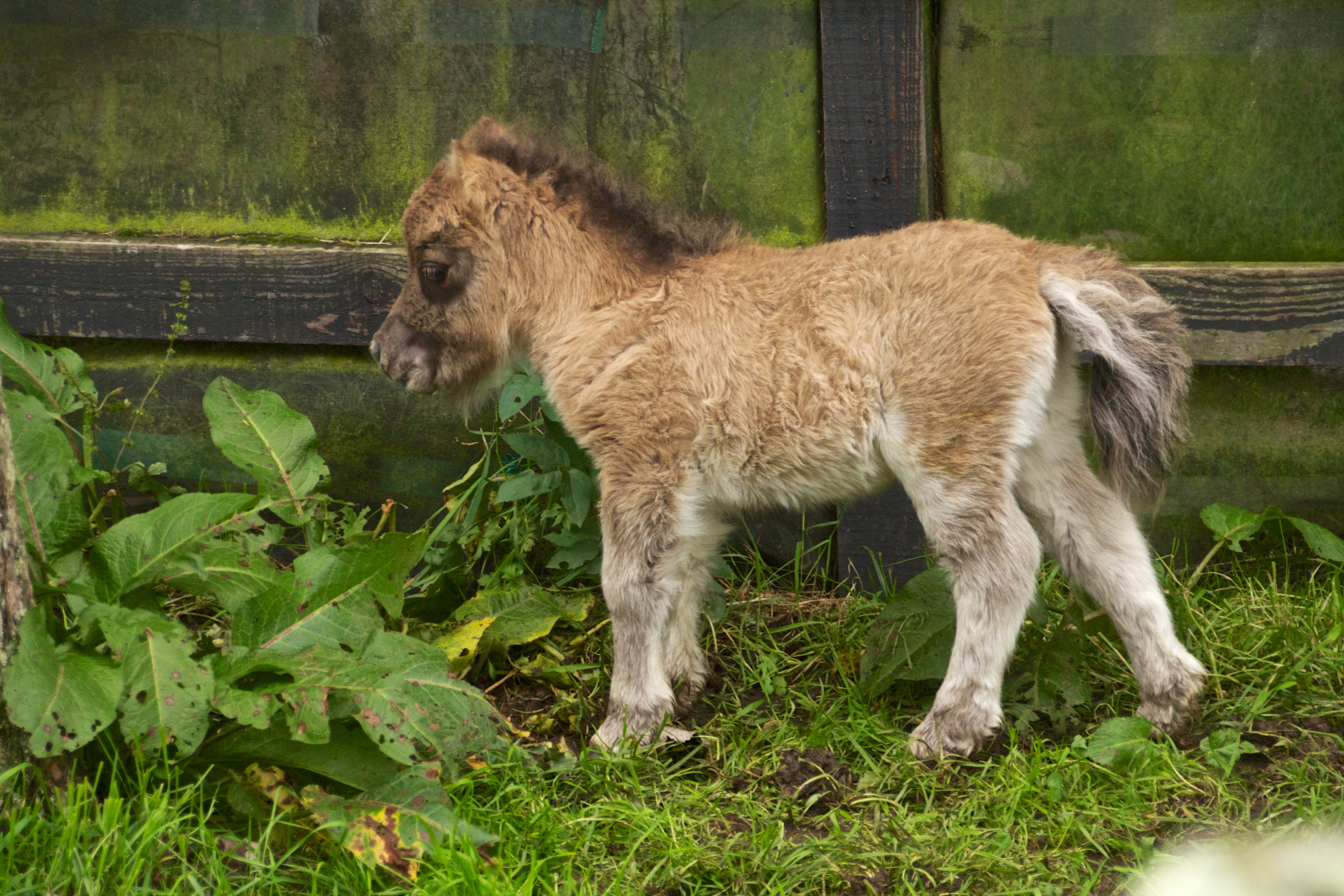 Dun Falabella foal at Irish National Stud, Kildare, Ireland